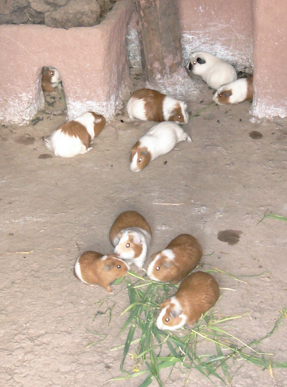 Cropped image of cuy being raised in the kitchen